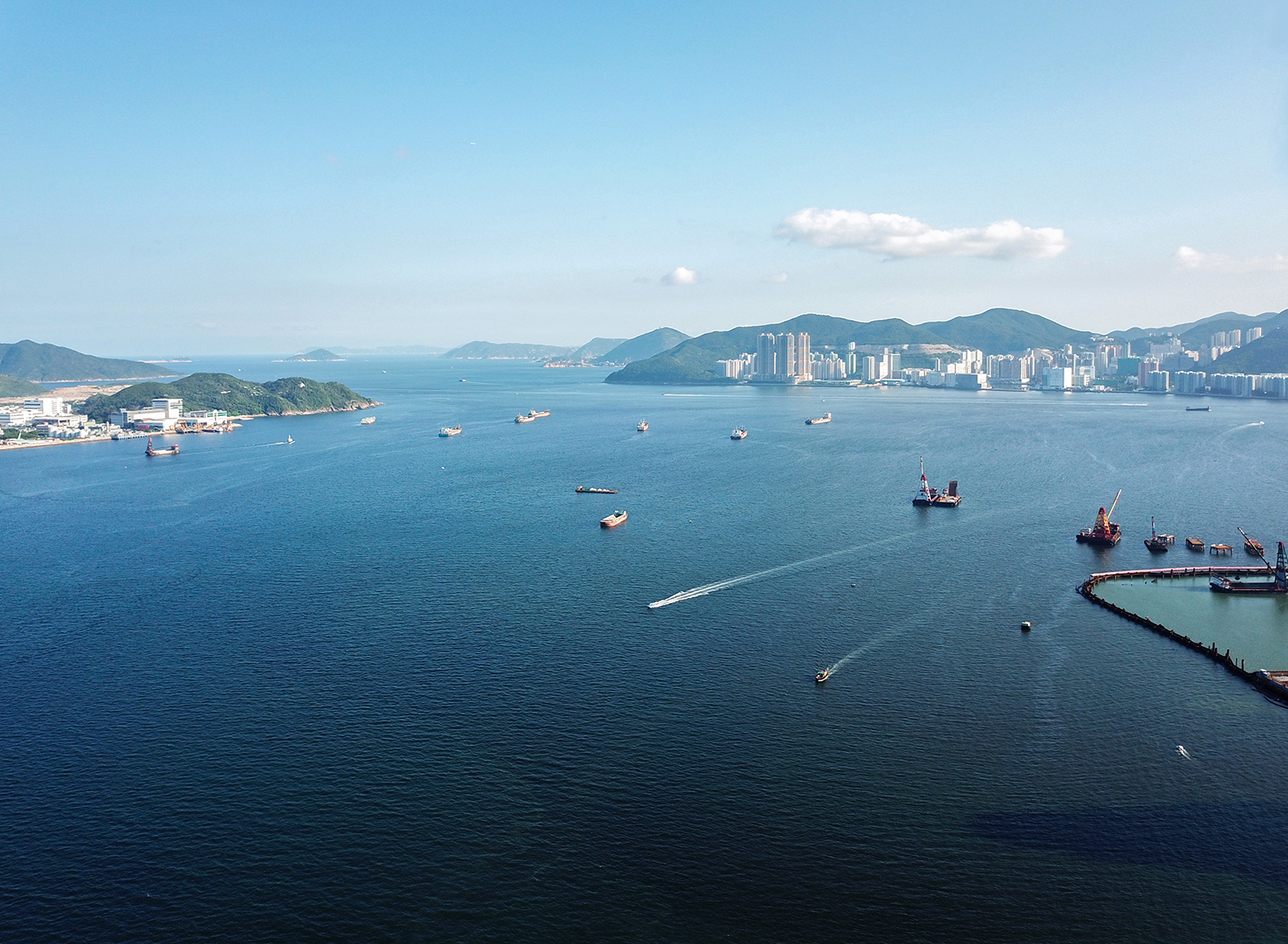 Tathong Channel